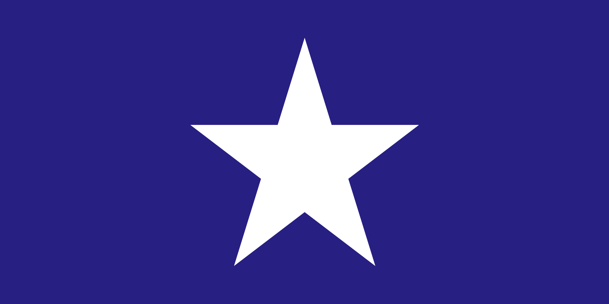 A navy blue flag charged with a white star in the centre (1:2 ratio).